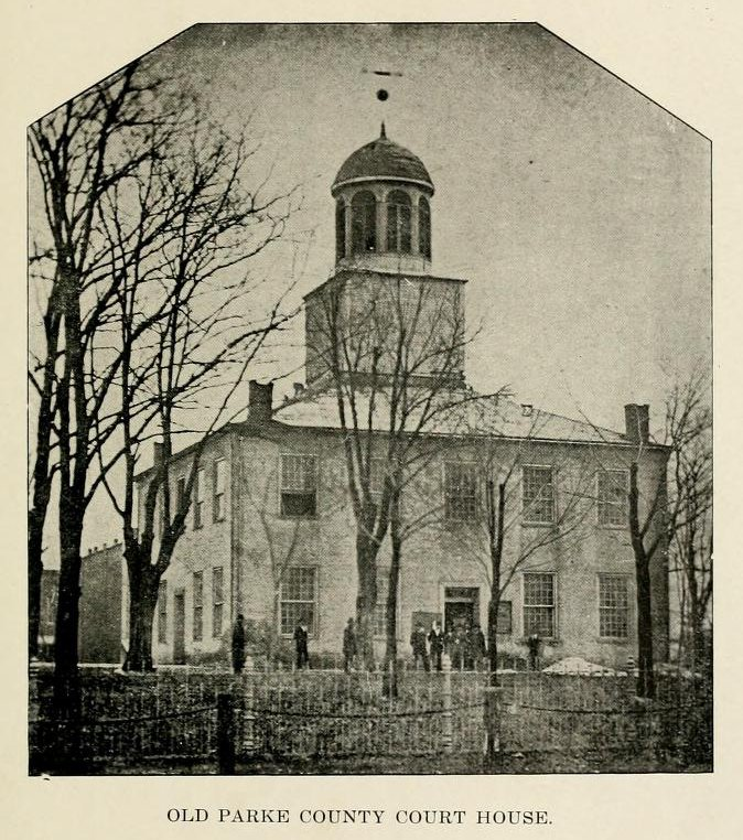 Photograph of the old courthouse in Rockville, Parke County, Indiana. This building was constructed in 1832 and was demolished in 1879 to make way for the current courthouse.